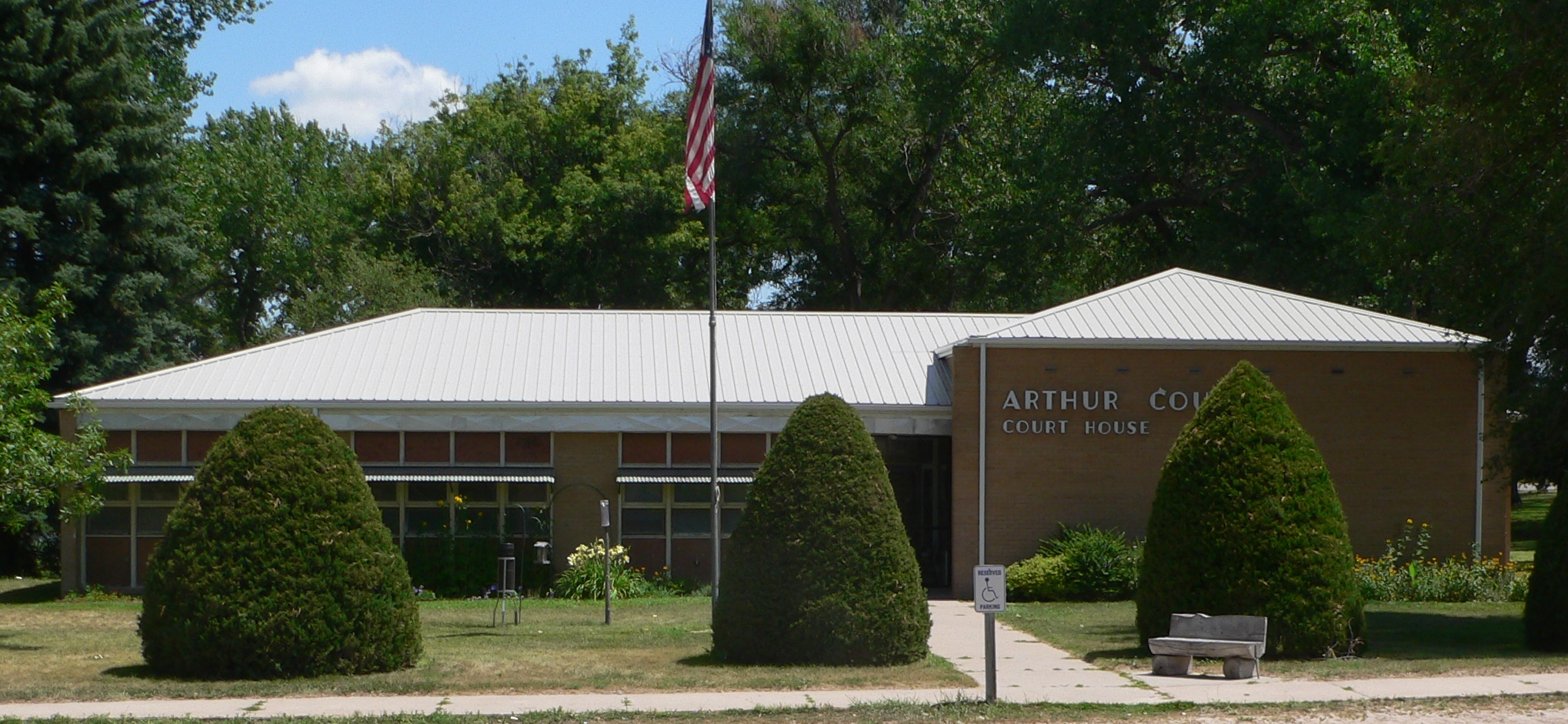 Arthur County courthouse in Arthur, Nebraska; seen from the north. According to a plaque inside (photo uploaded), the courthouse was built in 1961.